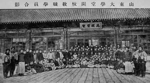 Photo of an opening ceremony with students at faculty at Shandong Imperial University.